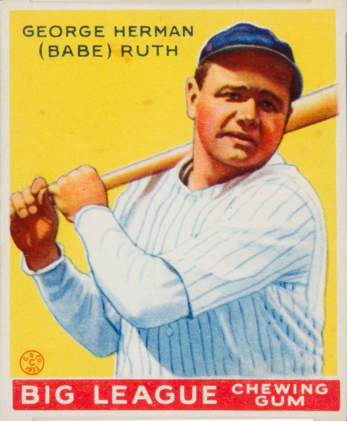 1933 Goudey baseball card of Babe Ruth of the New York Yankees #53. Pd-not-renewed.